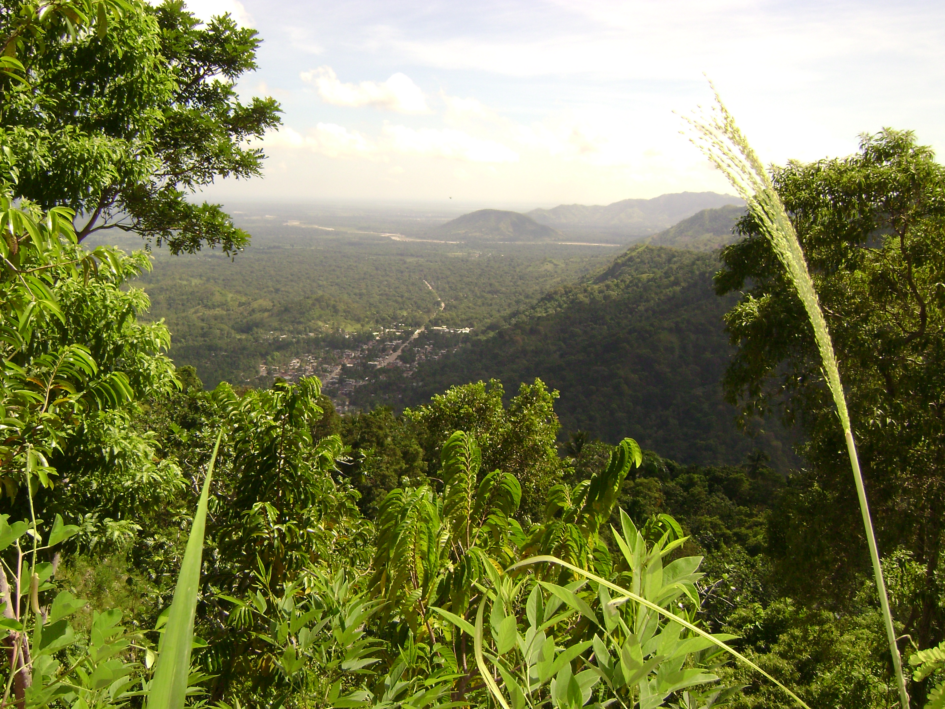 Image of the town of Milot, Haiti taken from the path up to the Citadel.